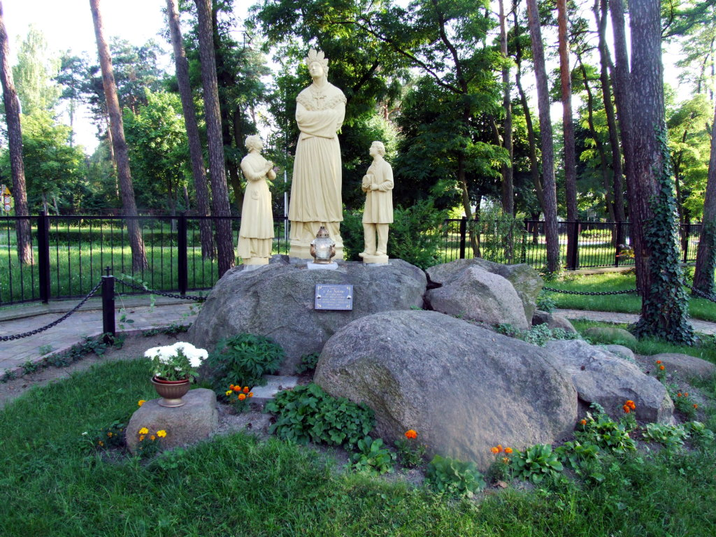 Our Lady of La Salette statue in Ostrowiec Swietokrzyski